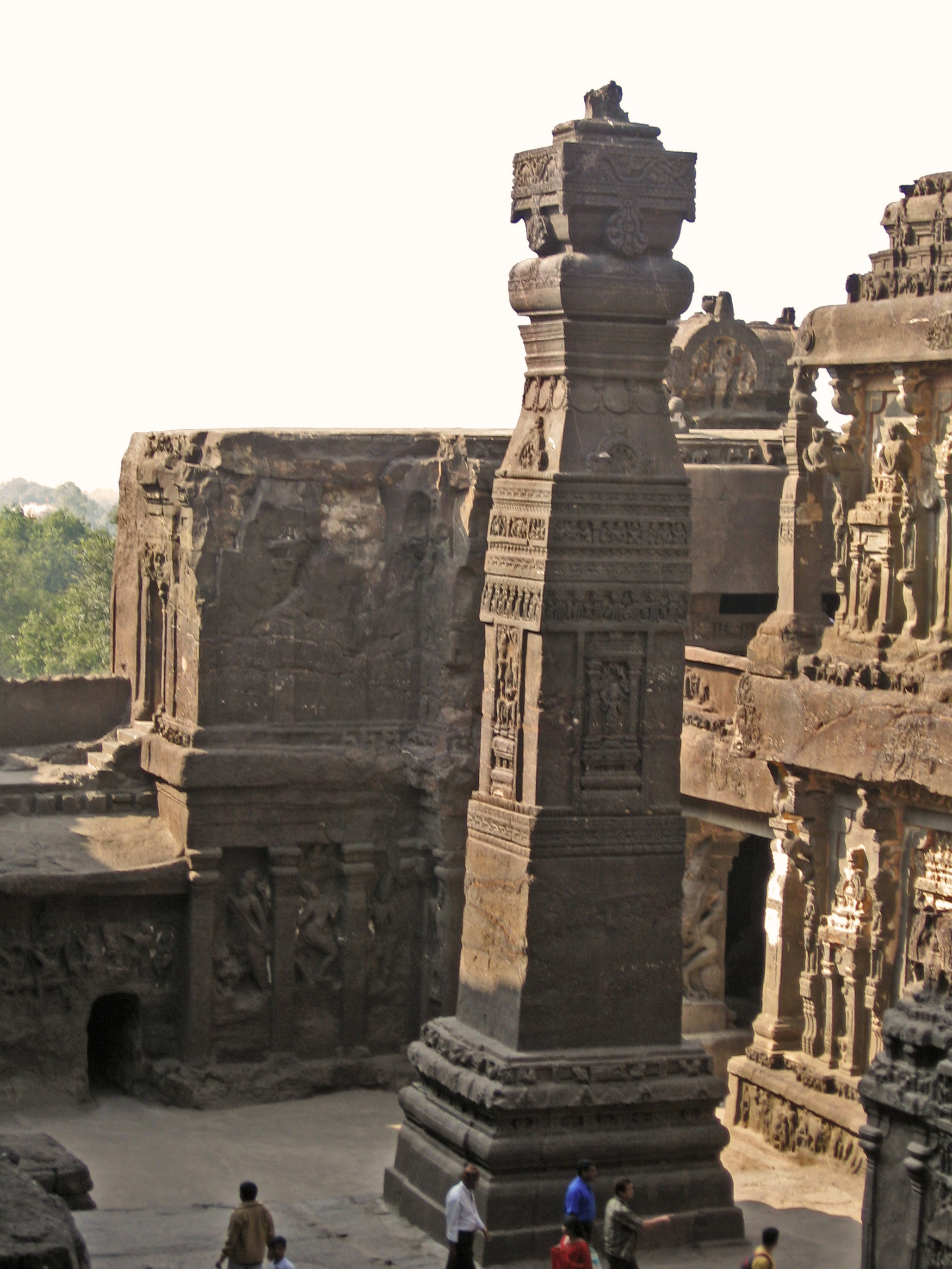 A stone carved pillar at Kailash temple.